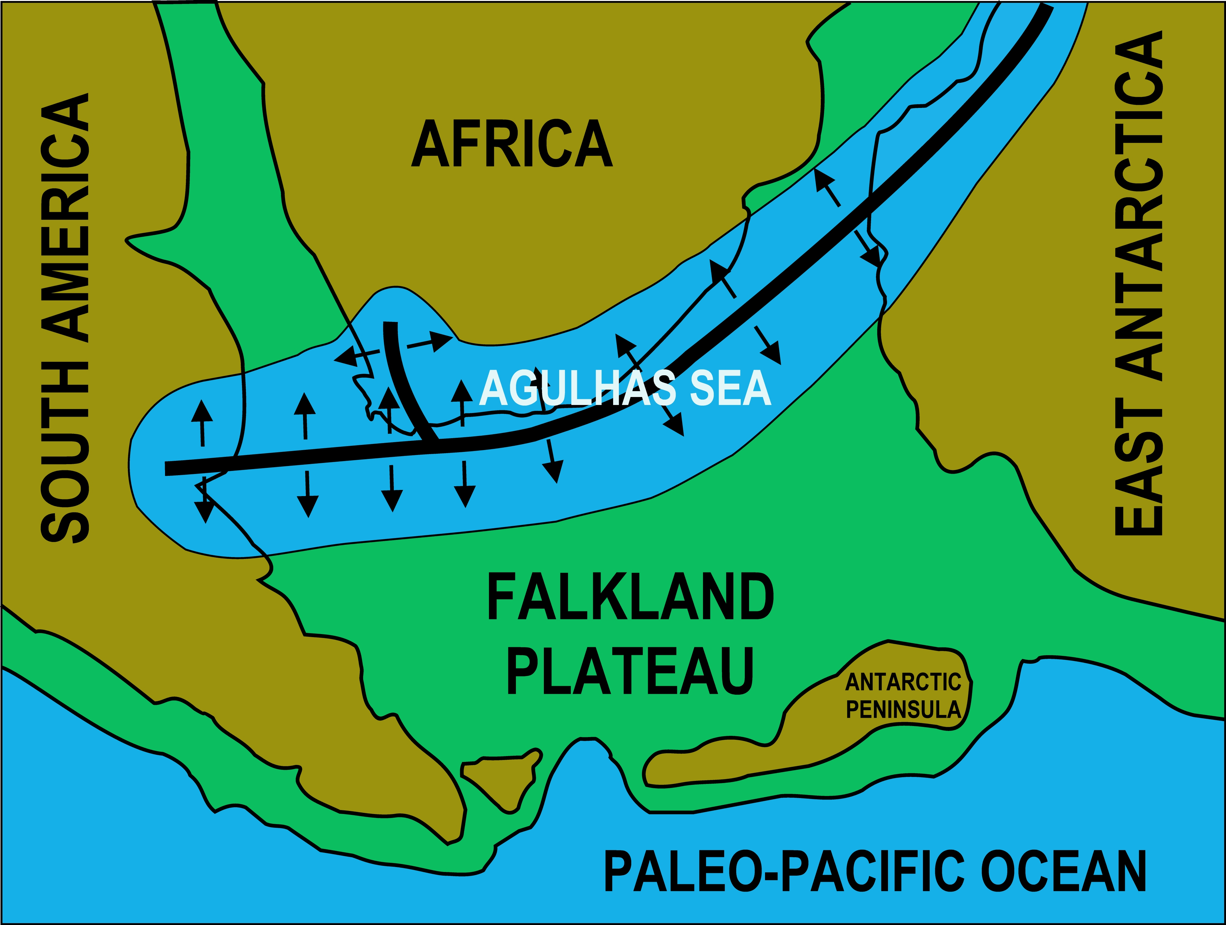 The southern portion of Gondwana soon after its assembly. A rift appeared as indicated by the thick black line about 500 mya. This flooded to form the Agulhas Sea. This sea filled with sedimenst that were to become the Cape Supergroup, which subsequently were folded into the Cape Fold Belt